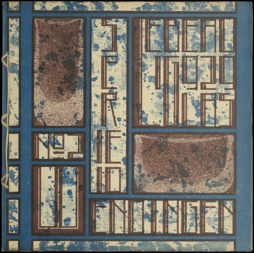 Front cover of Dutch art magazine Wendingen, 1929-3. Design by Chris Lebeau